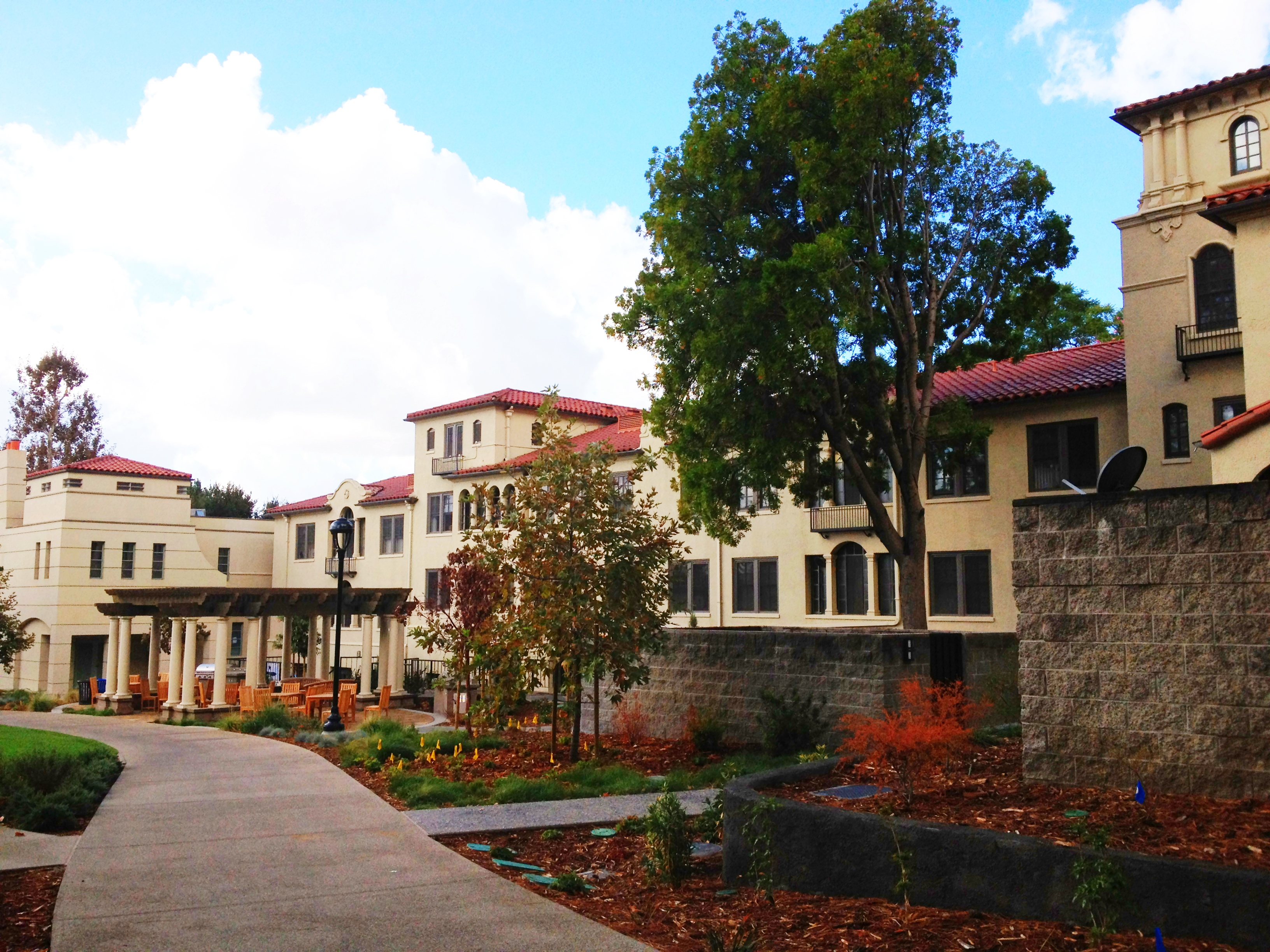 In between Mudd-Blaisdell and Harwood, at Claremont, CA